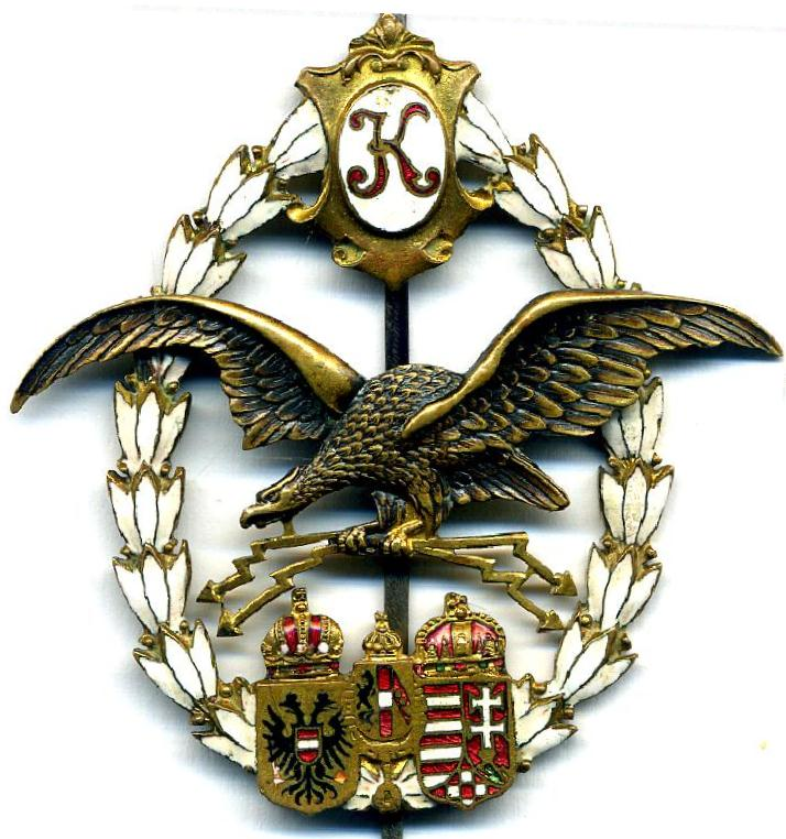 Austro-Hugarian air force badge